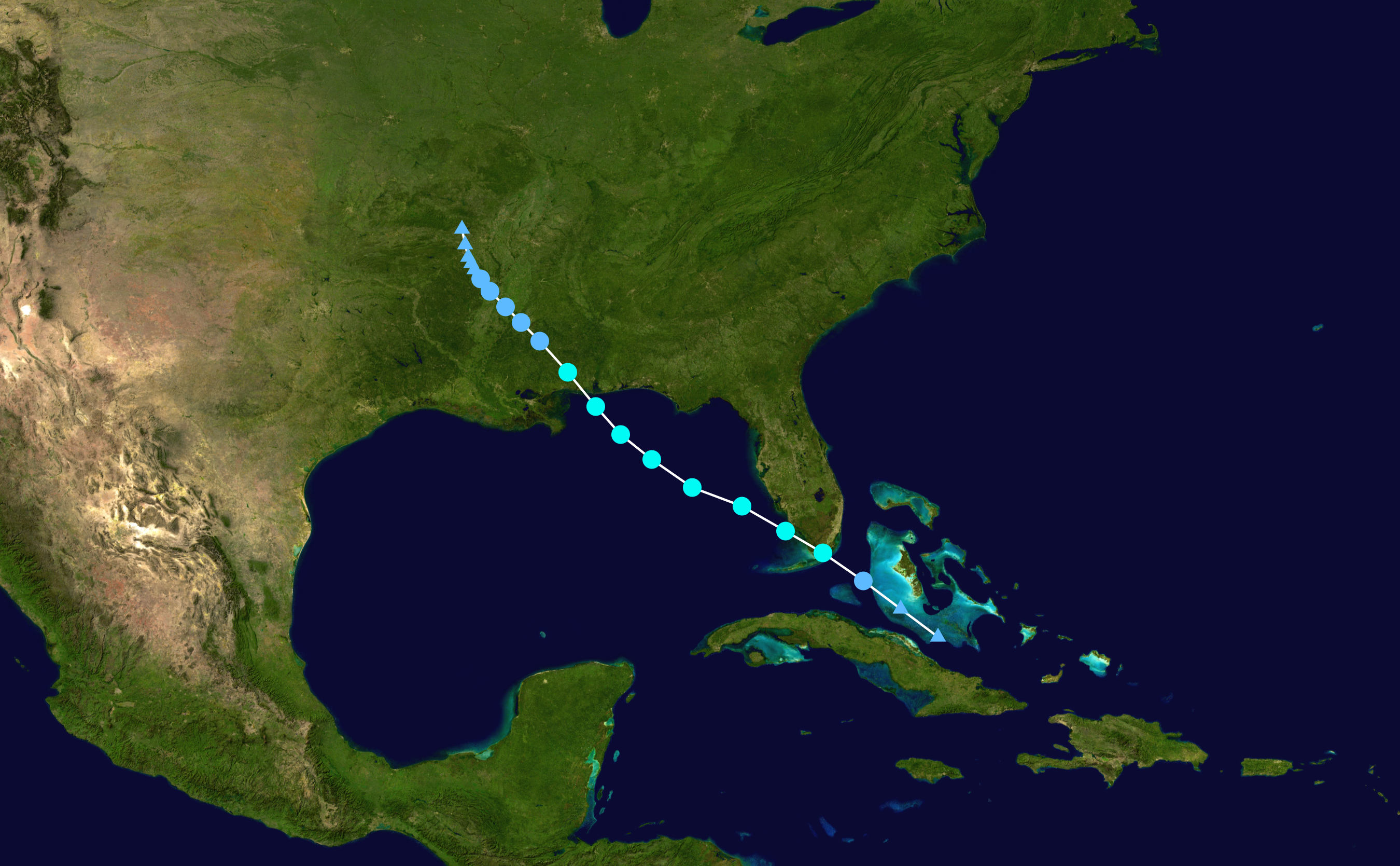 Track map of Tropical Storm Gordon (2018) of the 2018 Atlantic hurricane season. The points show the location of the storm at 6-hour intervals. The colour represents the storm's maximum sustained wind speeds as classified in the Saffir–Simpson scale (see below), and the shape of the data points represent the nature of the storm, according to the legend below. Saffir–Simpson scale Tropical depression≤38 mph≤62 km/h Category 3111–129 mph178–208 km/h Tropical storm39–73 mph63–118 km/h Category 4130–156 mph209–251 km/h Category 174–95 mph119–153 km/h Category 5≥157 mph≥252 km/h Category 296–110 mph154–177 km/h Unknown Storm type Tropical cyclone Subtropical cyclone Extratropical cyclone / Remnant low / Tropical disturbance / Monsoon depression